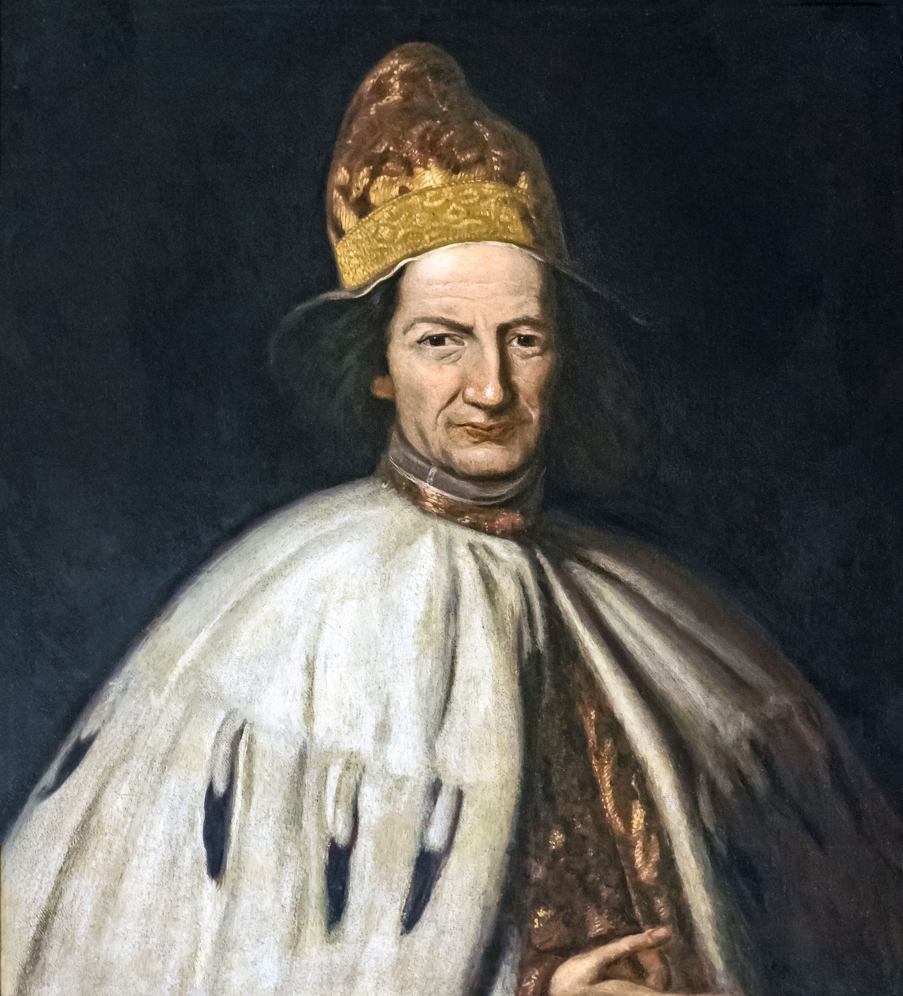 Depicted person: Silvestro Valiero – Doge of Venice